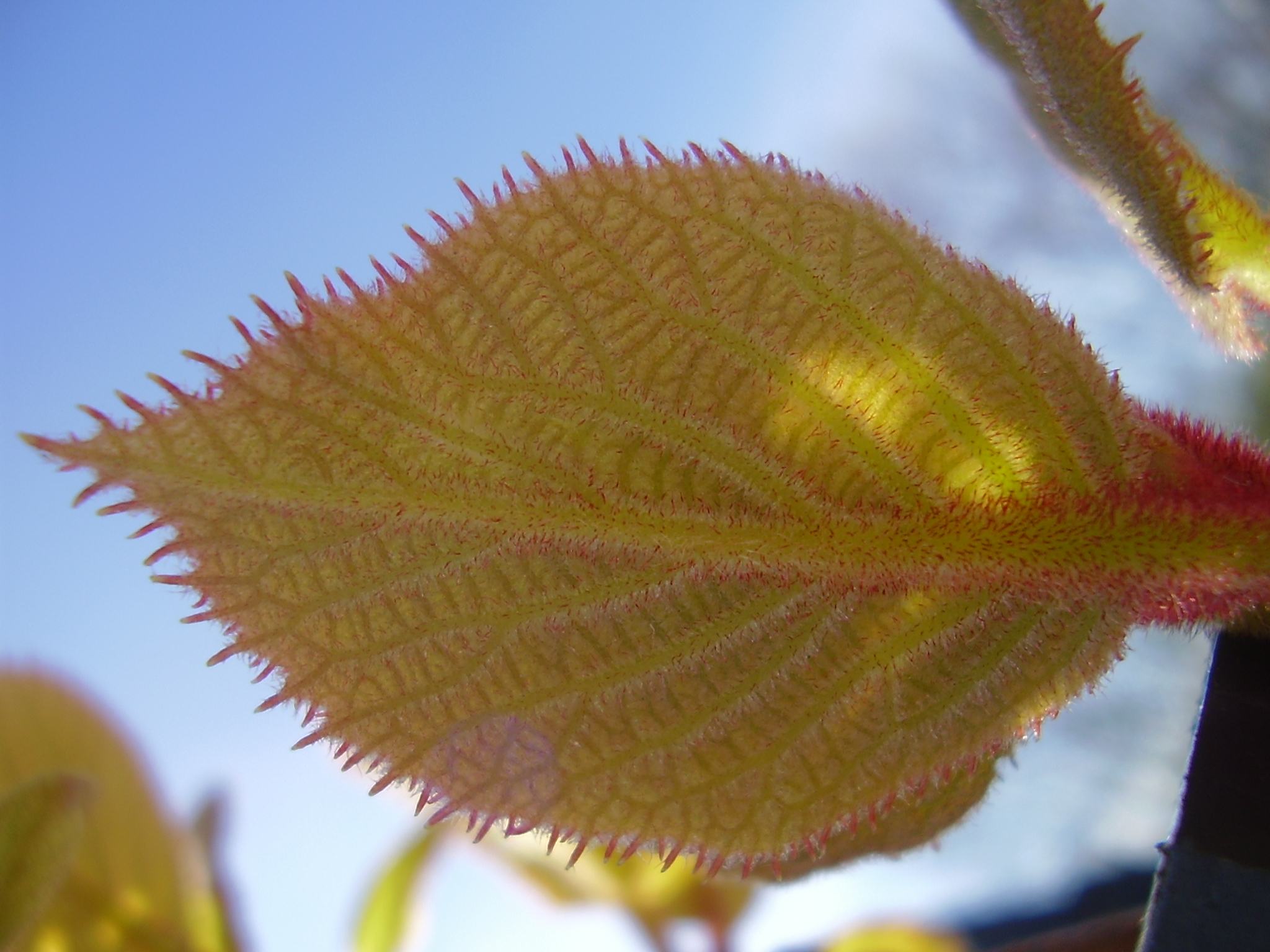 Actinidia deliciosa leaf, abaxial view.